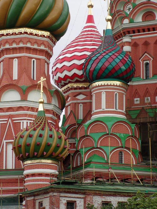 Photo closeup of St Basil's Cathedral in Moscow